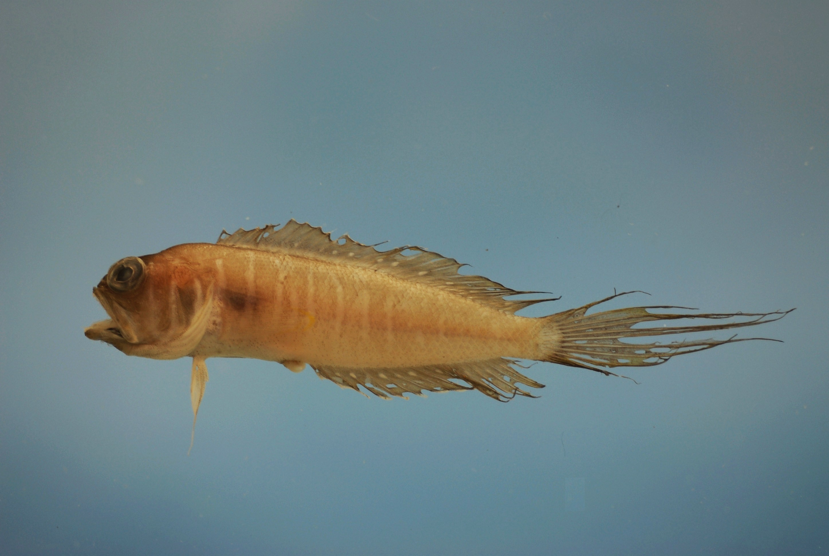 Swordtail jawfish (Lonchopisthus micrognathus) in the Gulf of Mexico